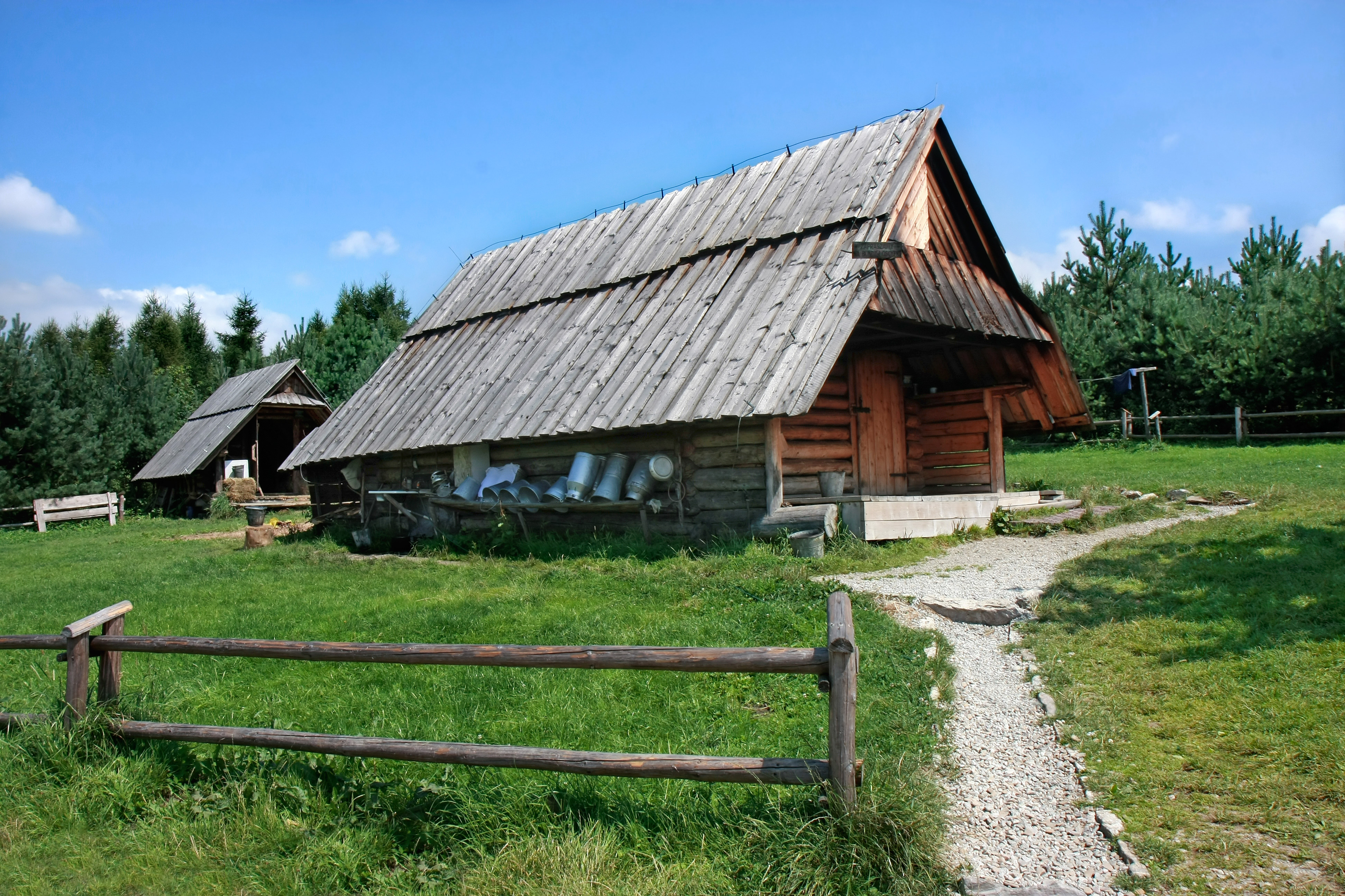 A traditional Polish herdsman's house called "bacówka" by the glade of Majerz, the Pieniny National Park, Poland.